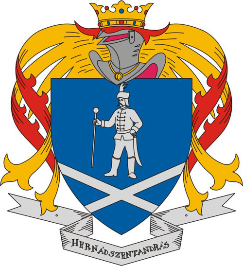 Coat of arms of Hernádszentandrás, Hungary